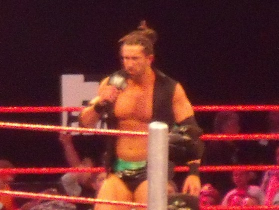 12/21/09 Tampa, Fl. The up-and-coming Tyler Reks, who's just miles away from his FCW home.